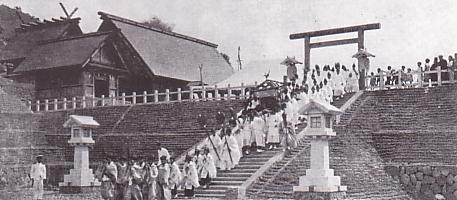 Nanyo Shrine